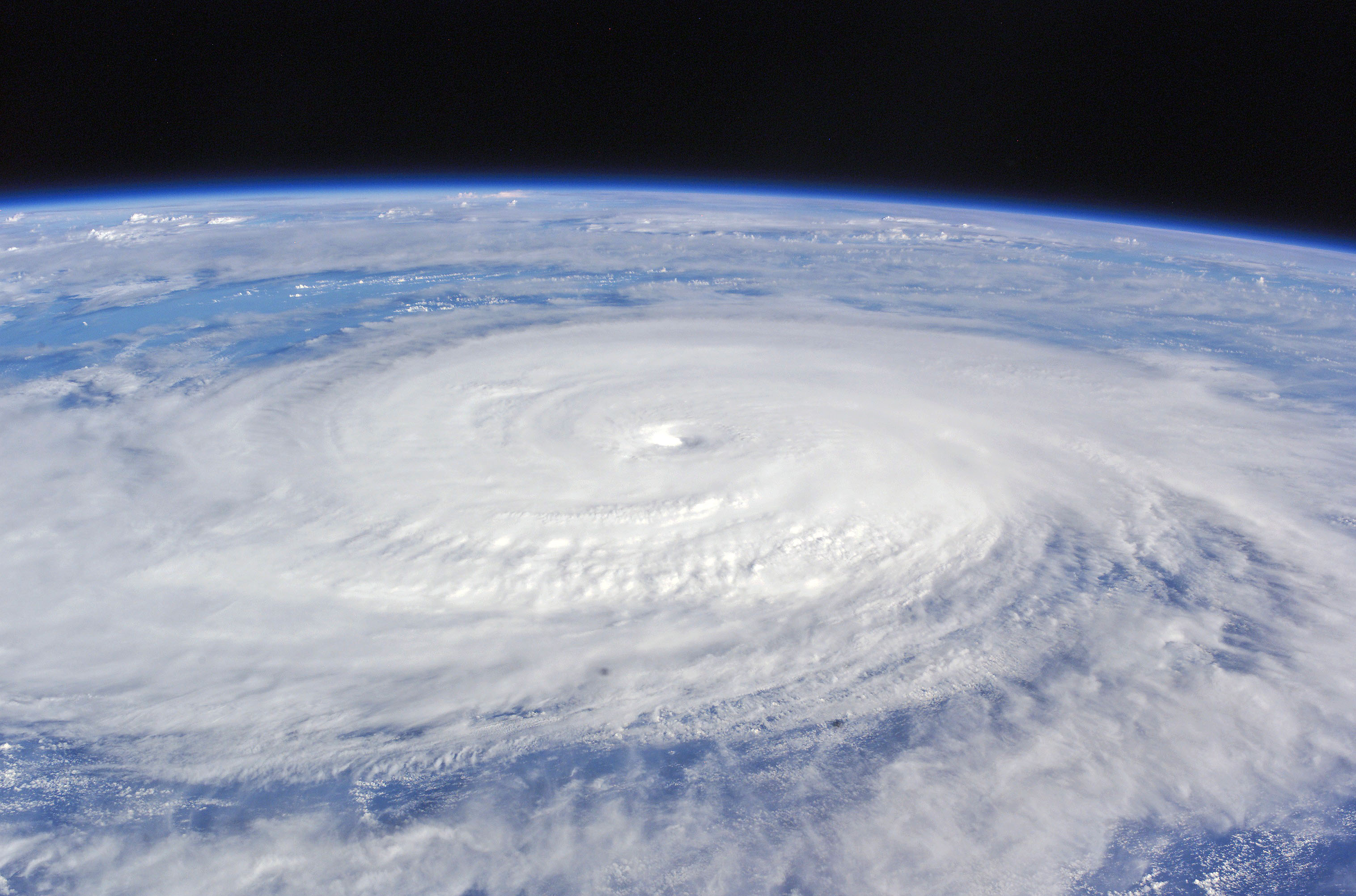 The Expedition 11 crew members aboard the International Space Station flying approximately 240 miles above Earth in Space captured this photo of Typhoon Longwang just reaching category 4 typhoon status swirling East of the East China Sea on September 27 2005